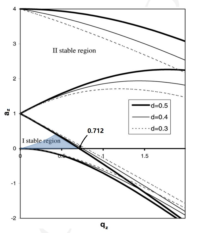 The first and second stability regions for axial (z) motion are plotted, and the blue shadowed area shows the first simultaneous (z and r) stability region. When duty cycle is 0.5, the first stability region end at q = 0.712